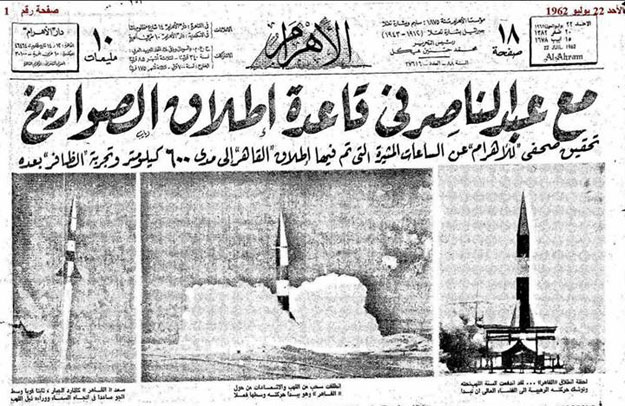 Al-Ahram newspaper Egyptian rockets 1962